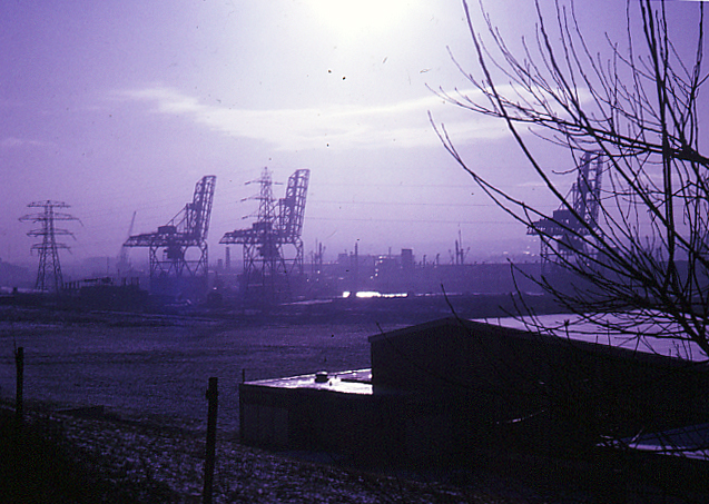 Iron ore hoppers, Birkenhead docks 1967.